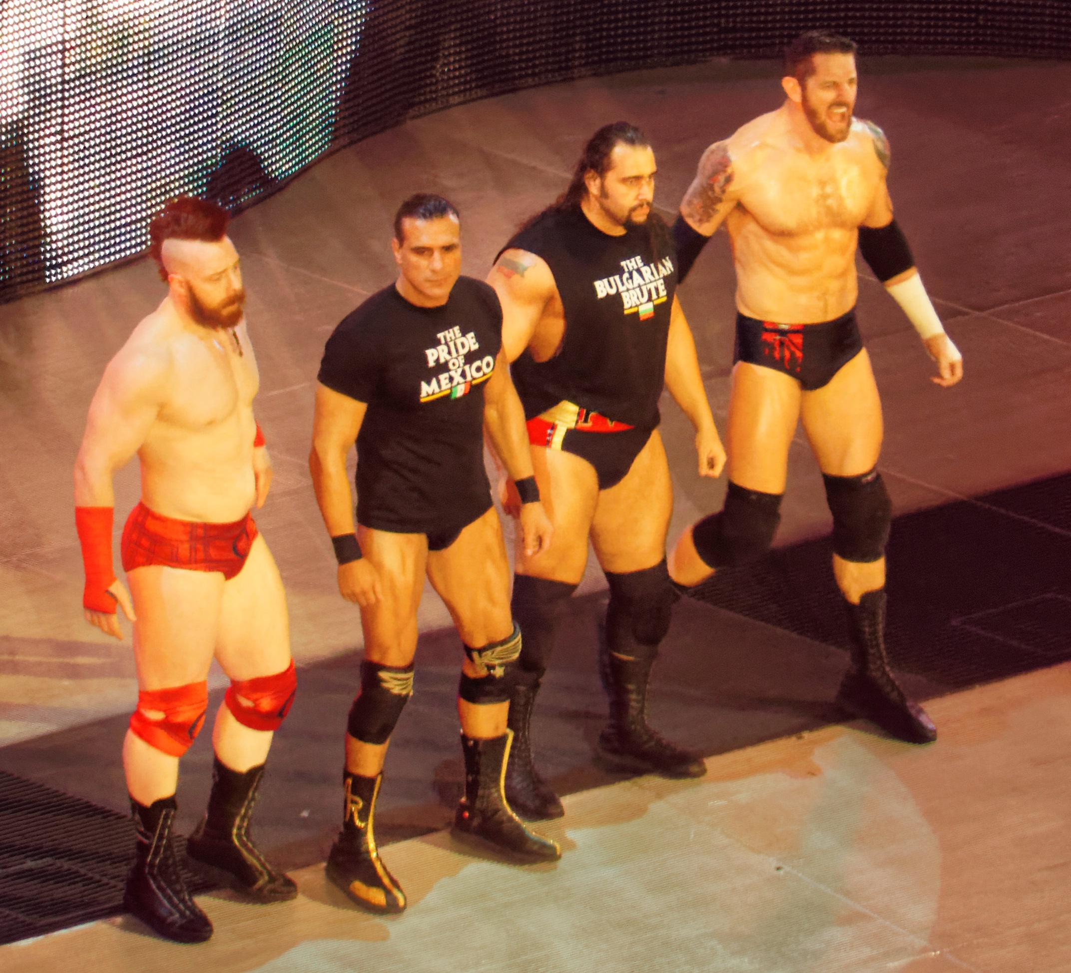 The raw after WrestleMania 32 Big E (c) & Kofi Kingston (c) def. (pin) King Barrett & Sheamus (in 08:45) For : WWE Tag Team Championship